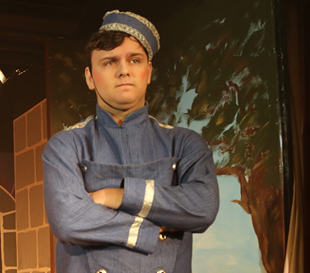 The actor, Luke Fruin, as Buttons in the Herne Bay Little Theatre's production of Cinderella.